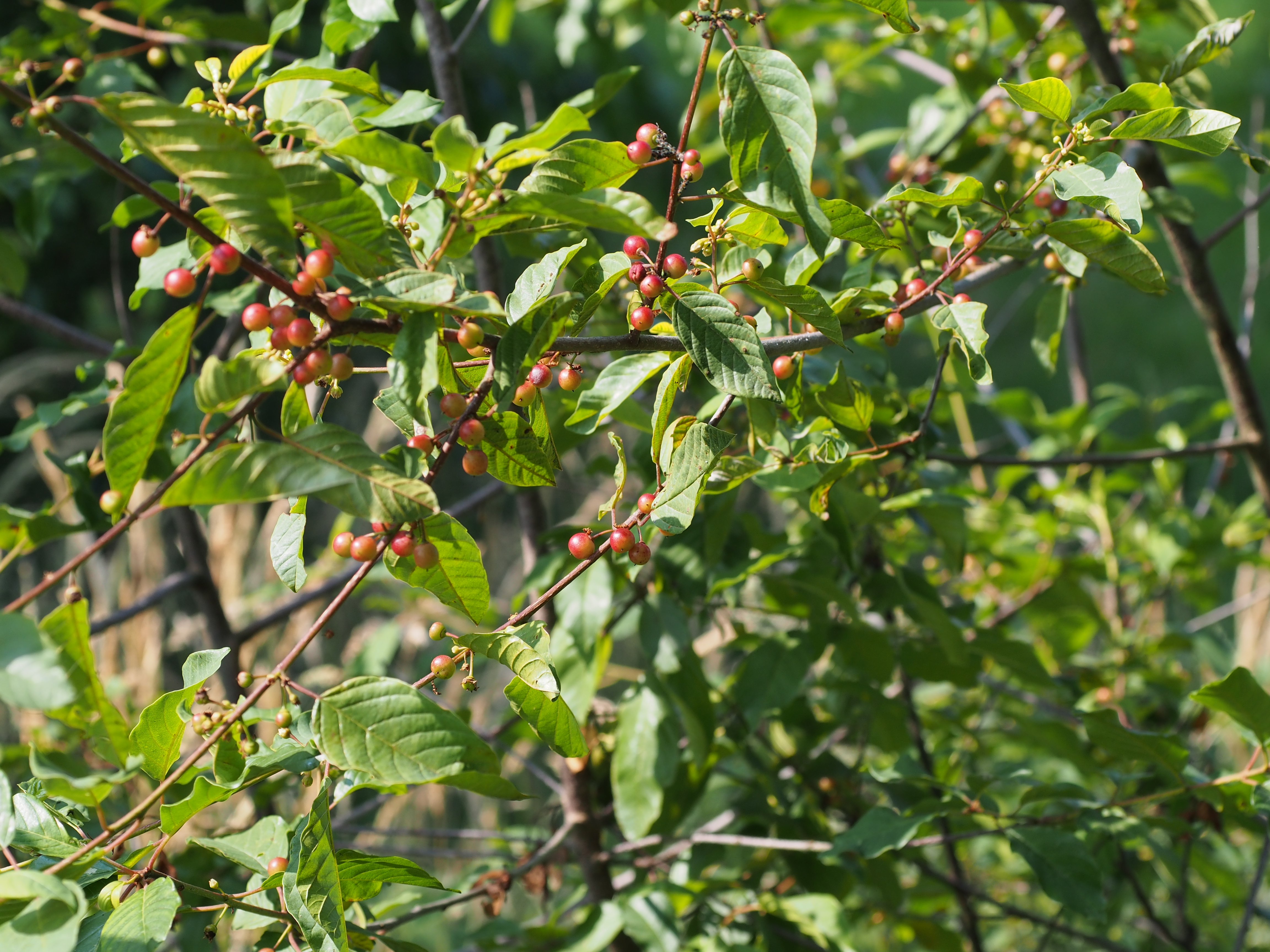 Alder Buckthorn (Frangula alnus) in the Südheide Nature Park in north Germany